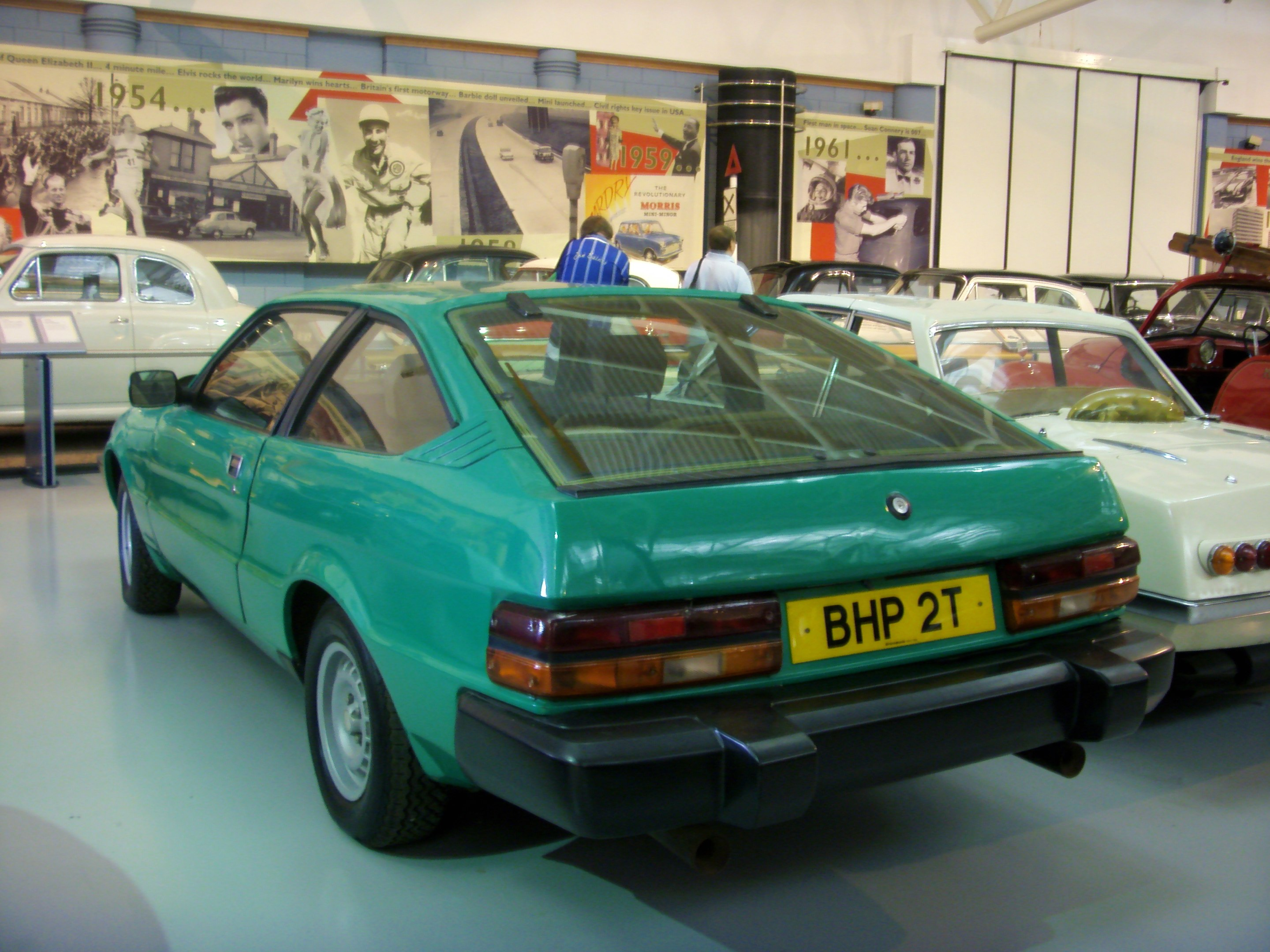 1978 Triumph TR7 (Project Lynx)